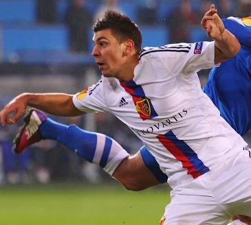 Aleksandar Dragović